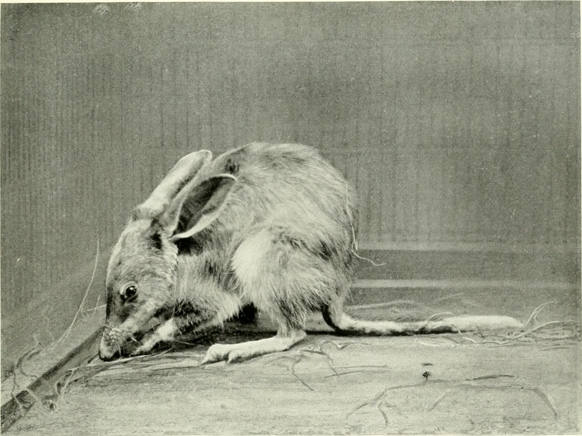 I. Ohrcnbcutiidcichs, Pcraijale lagutis Reid. ^U nat. Gr., s. S. 1 Kl. - \V. S. Berridge, F. Z. S. - London pliot.